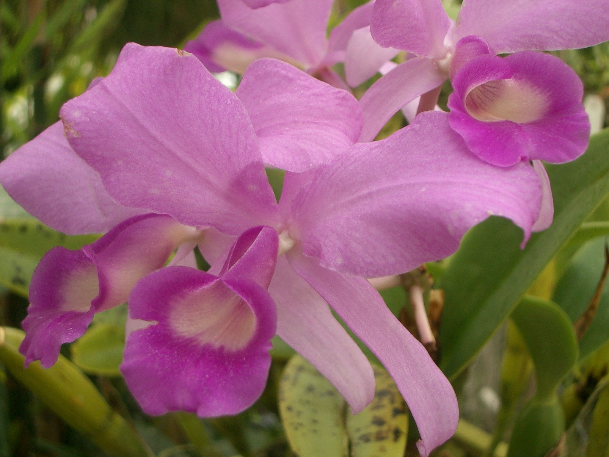 Description: Cattleya skinneri